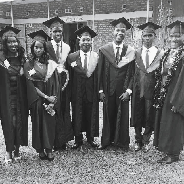 This is an image of "African people at work" from Uganda